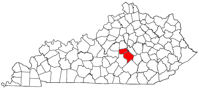 Locator map of the Danville Micropolitan Statistical Area in the central part of the U.S. state of Kentucky.